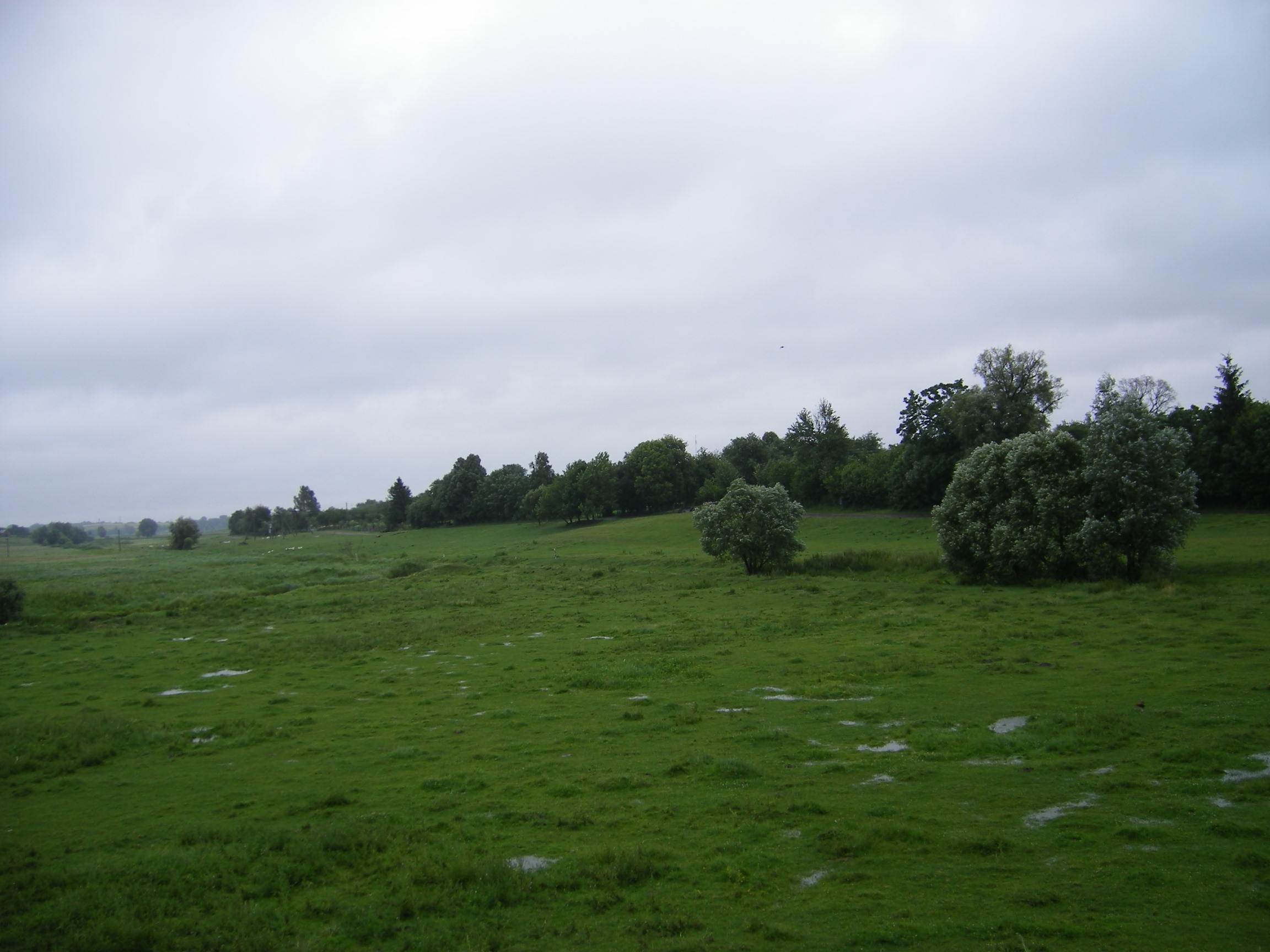 Landscape near Tereshkivtsy, Horokhiv Raion